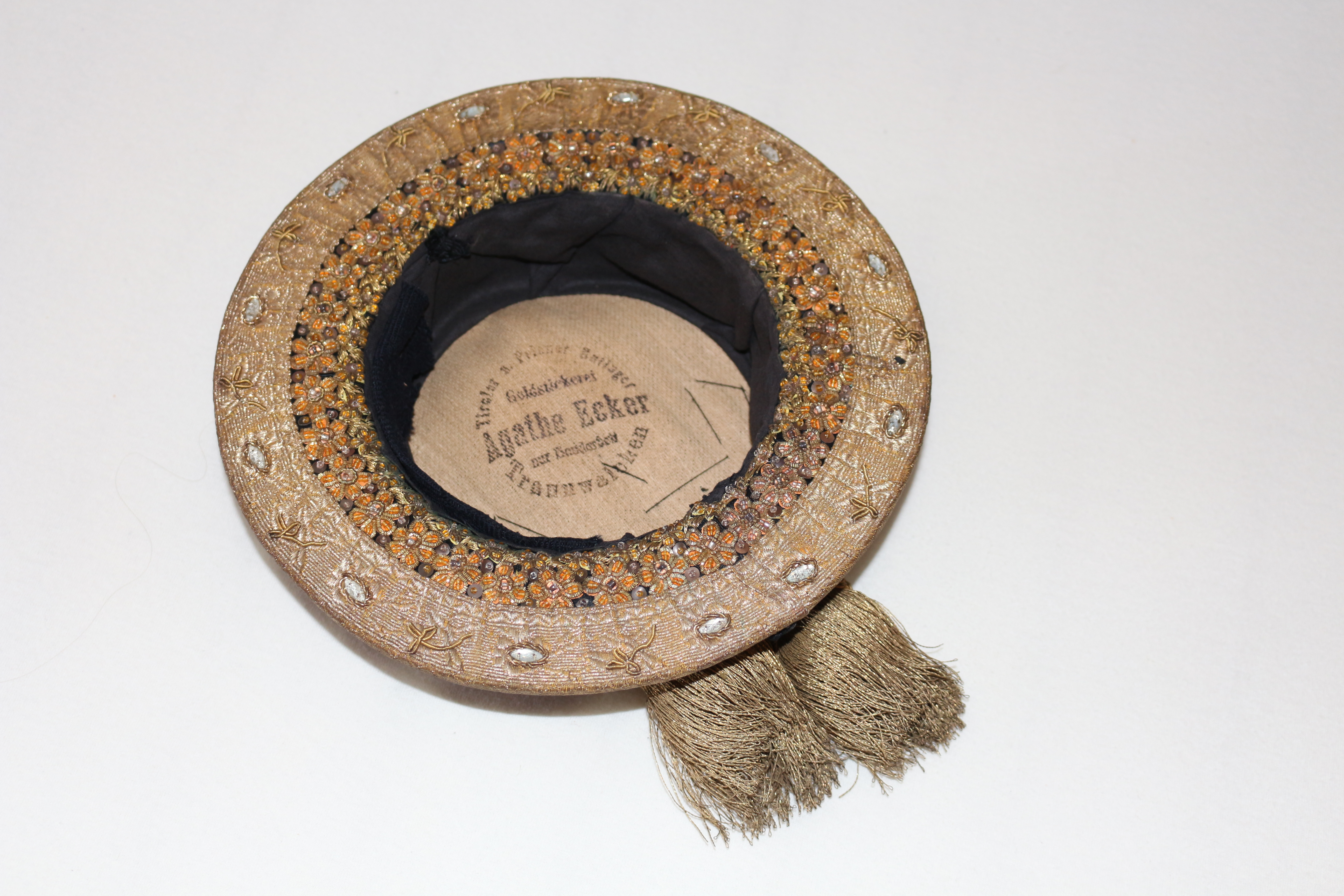 Priener Hat, reverse side with gold work Traditional hat from Upper Bavaria, made from Agathe Ecker, Traunwalchen, in the 1920s